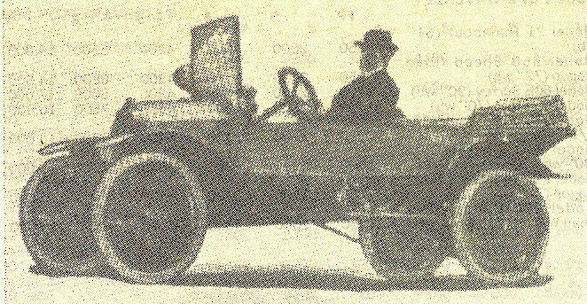 1914 Portland Cyclecar